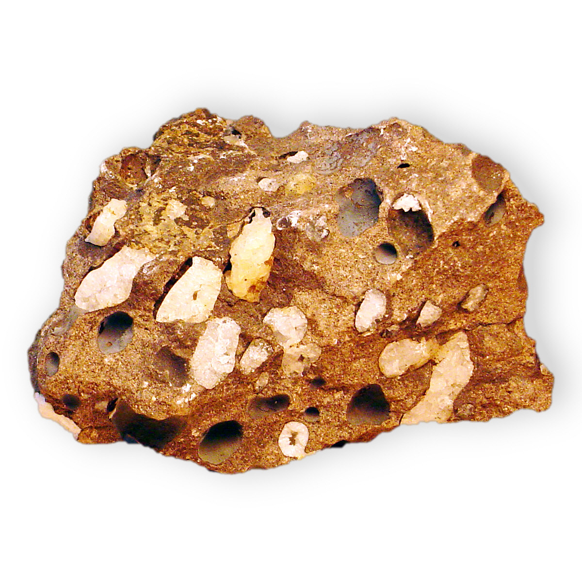 These mineral images are free to use how you wish.